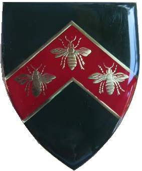 SADF Regiment Vanderbijlpark emblem